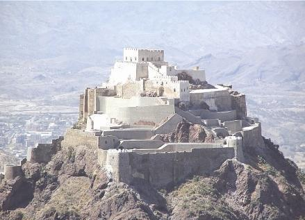 Cairo (Al-Qahira) Castle in Taiz,Yemen